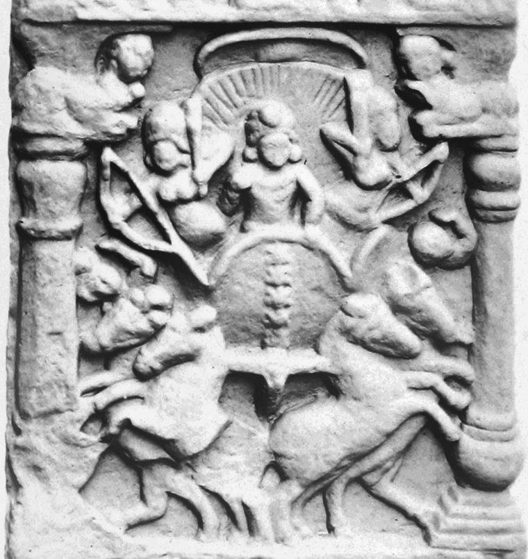 Bodh Gaya quadriga relief. Probably 2nd-1st century BCE. See also drawing drawing Comparison of Bodh Gaya quadriga relief of Surya and Classical example of Phoebus Apollo on quadriga. A similar motif from Gandhara.